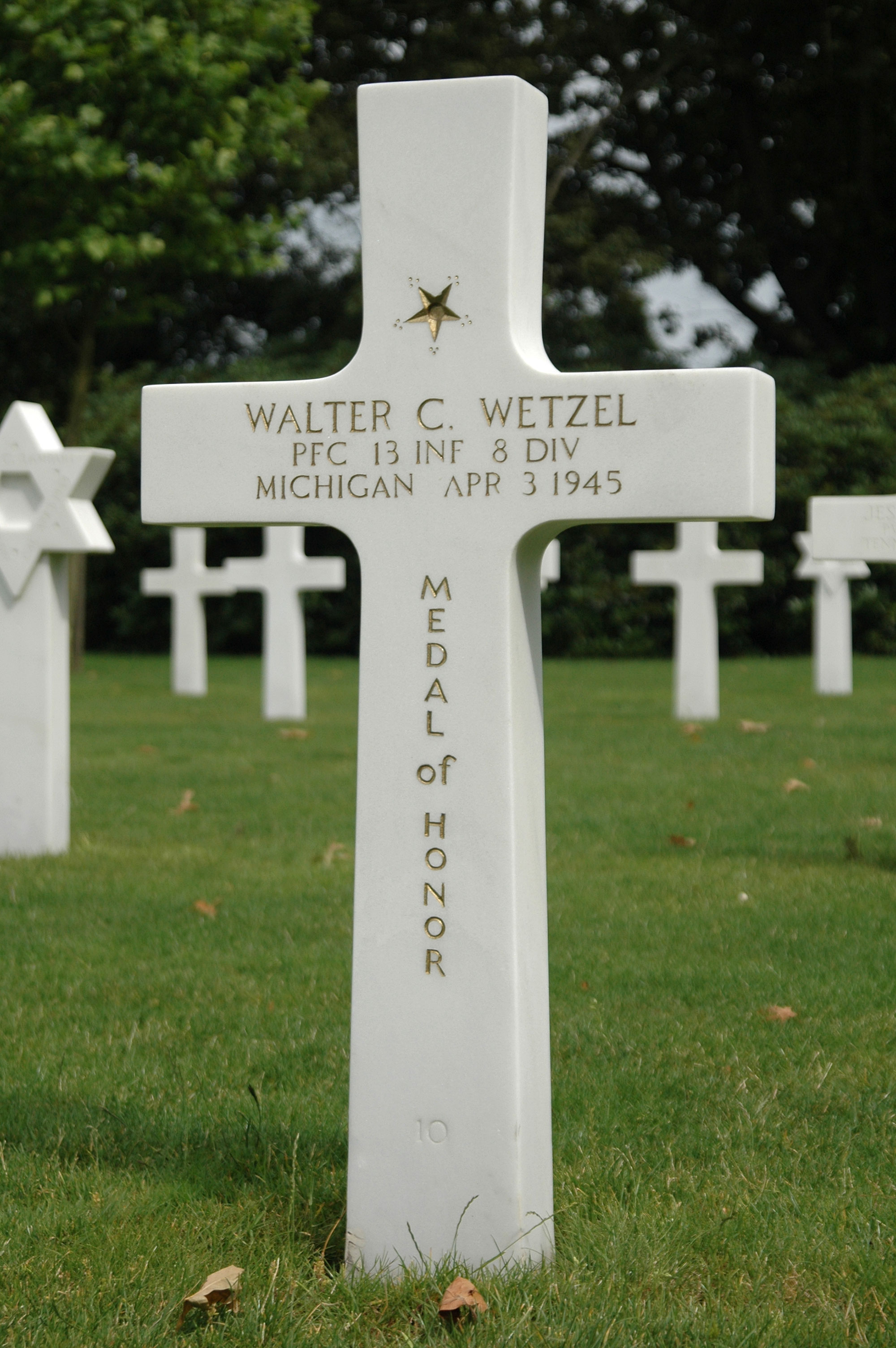 Grave of Walter C. Wetzel at Netherlands American Cemetery and Memorial